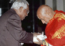 Vaduvur Desikachariar receiving President Award from Mr. K.R Narayanan for his Vedic Contribution